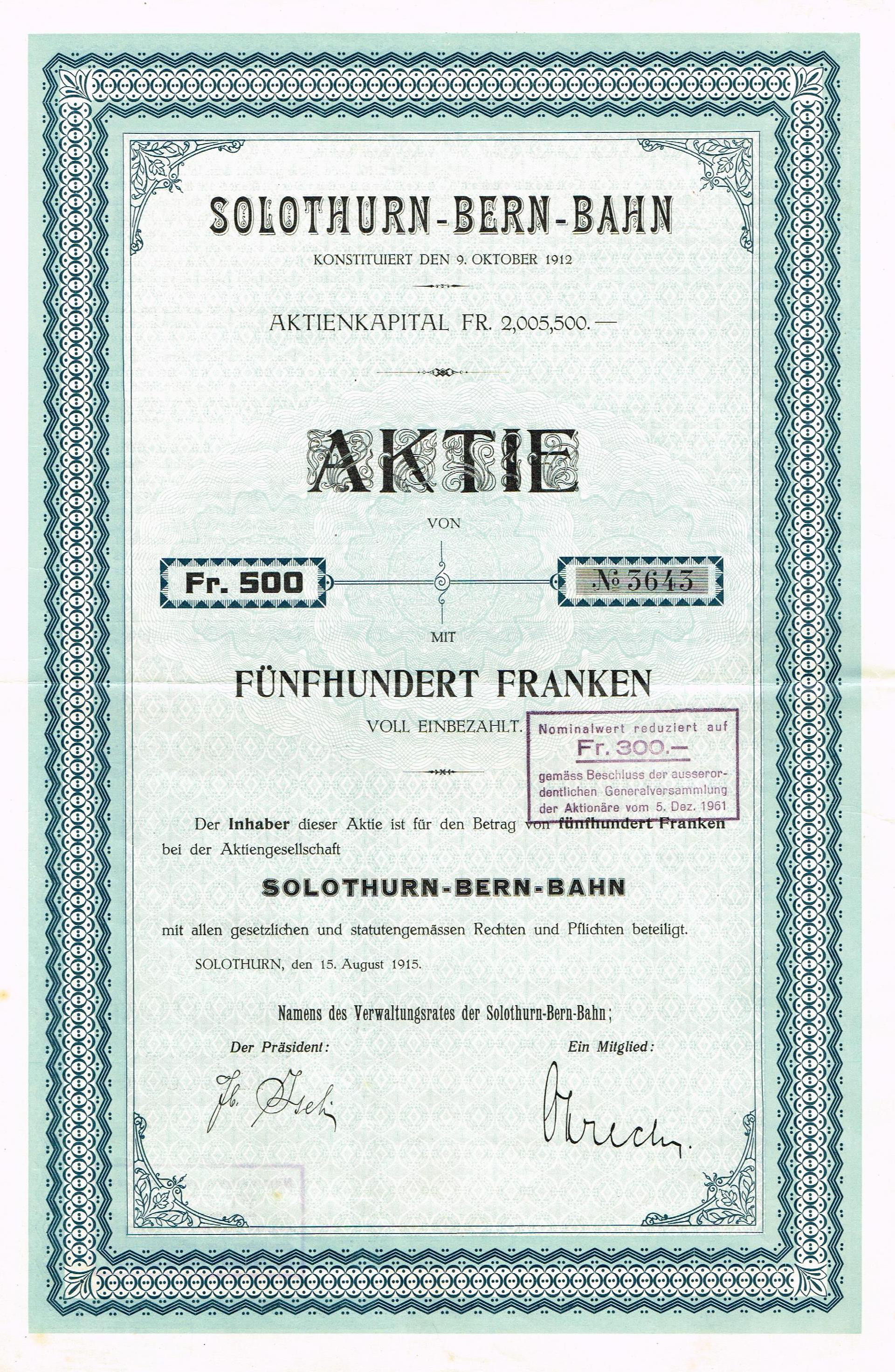 Share of the Solothurn-Bern-Bahn ESB, issued 15. August 1915